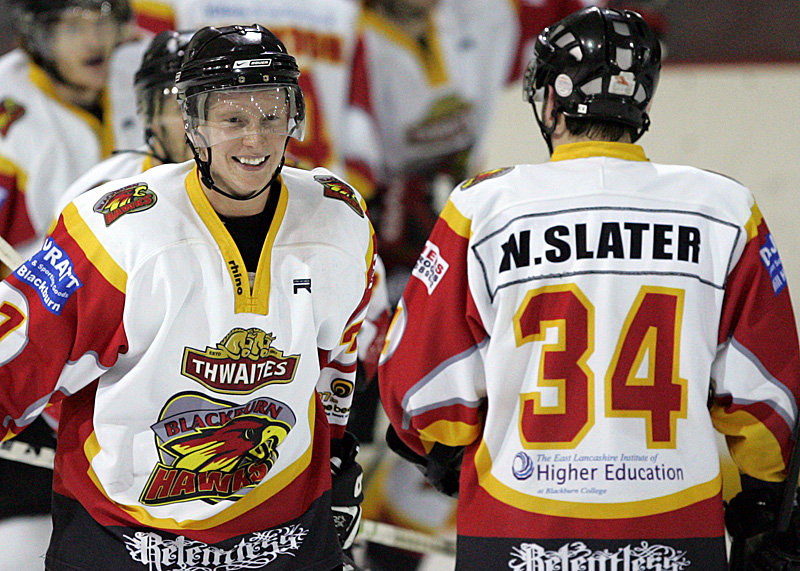 Blackburn Hawks players at a game against Kingston Jets